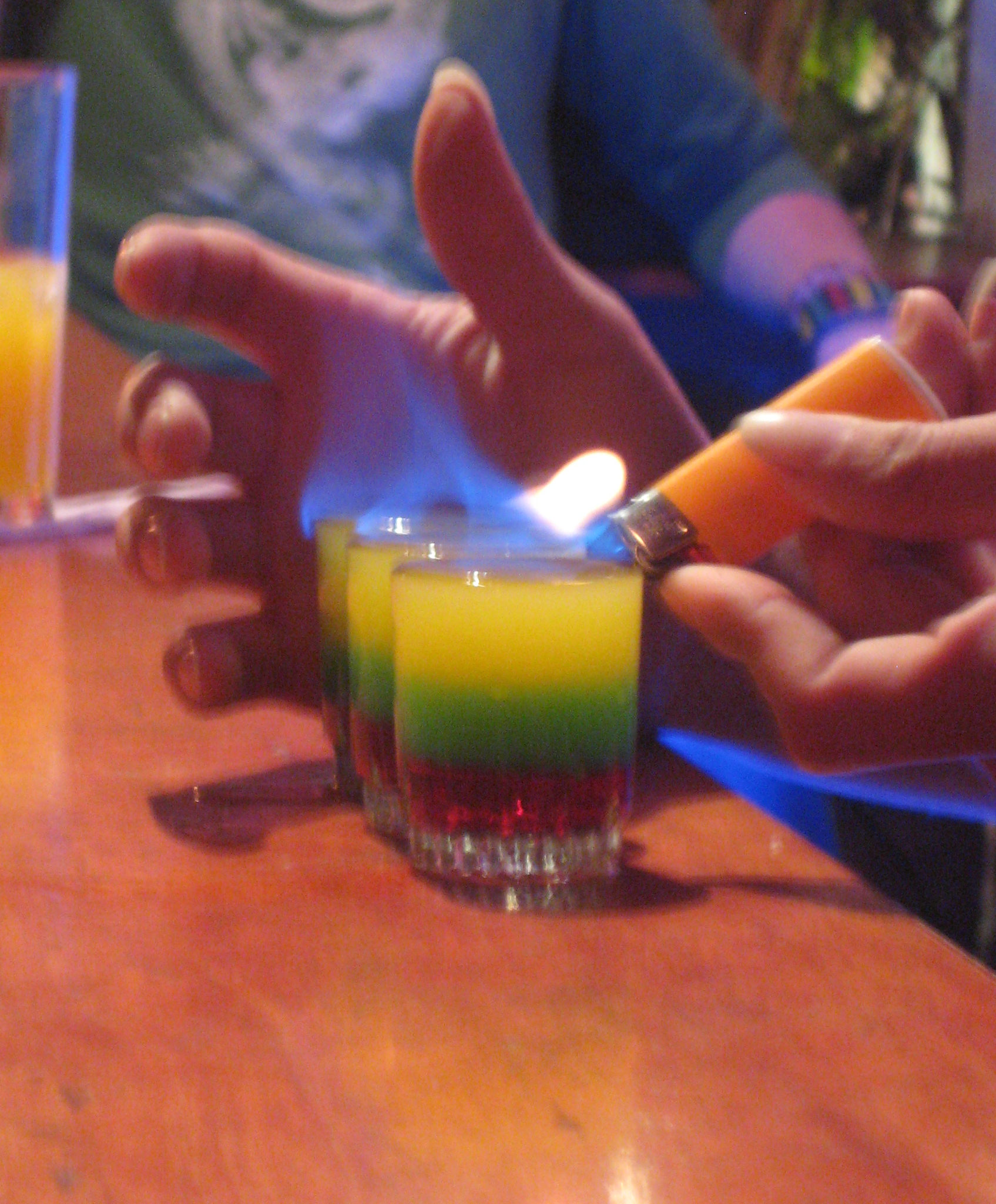 Flaming Bob Marley. at the Leprechaun Bar, Baños.